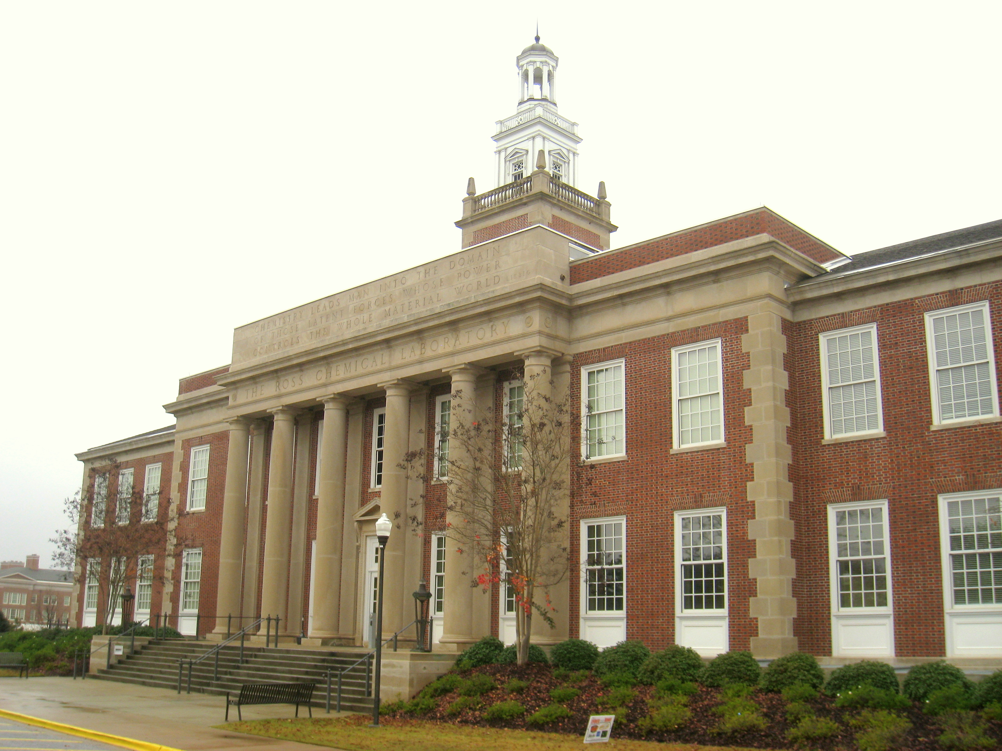 Ross Chemical Laboratory, Auburn University, Auburn, Alabama, USA.